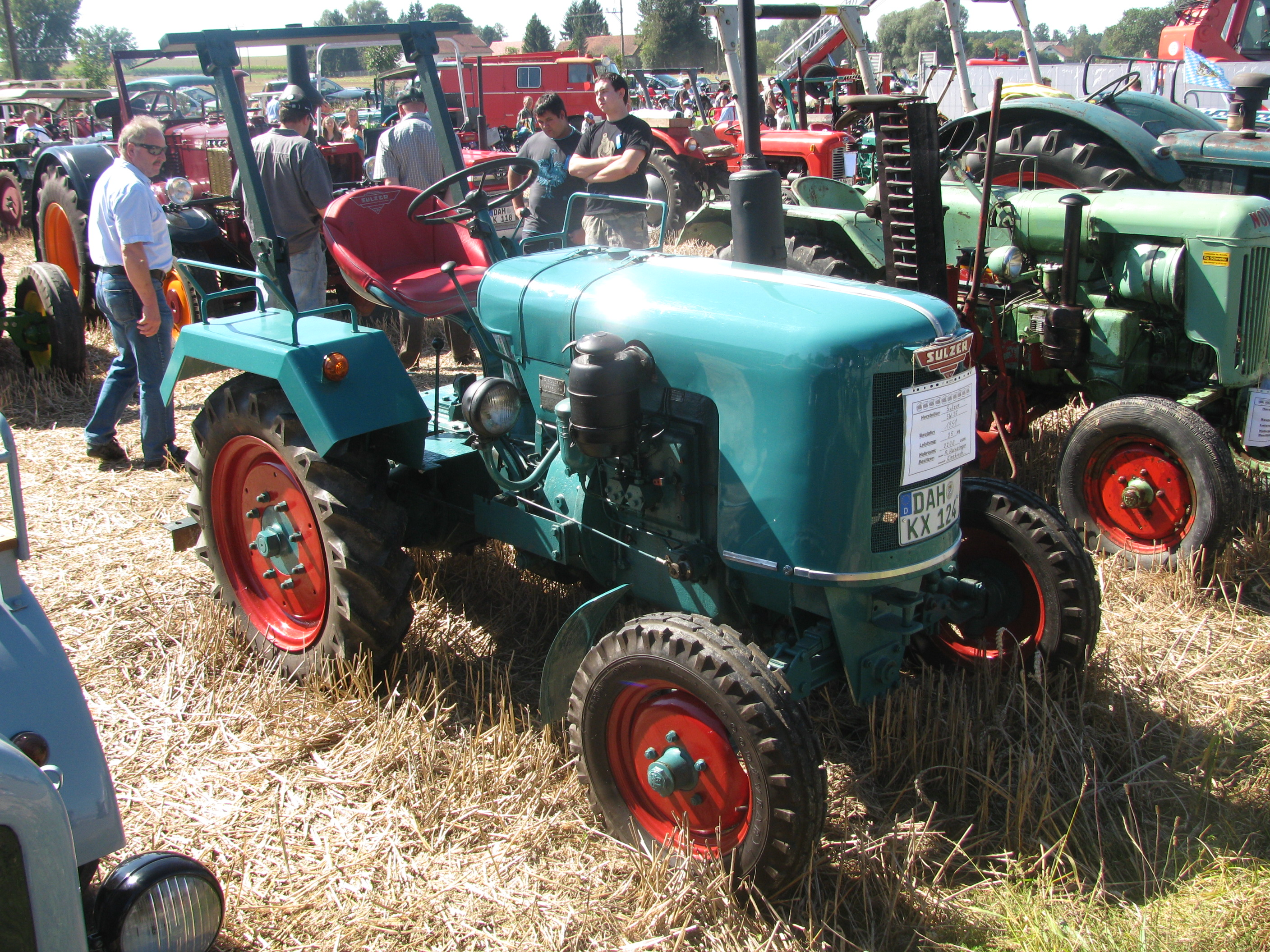 Sulzer SW25 tractor from 1951. 25 hp, 2 200 cm³. Bulldogtreffen 2012, Markt Indersdorf, Bavaria, Germany.